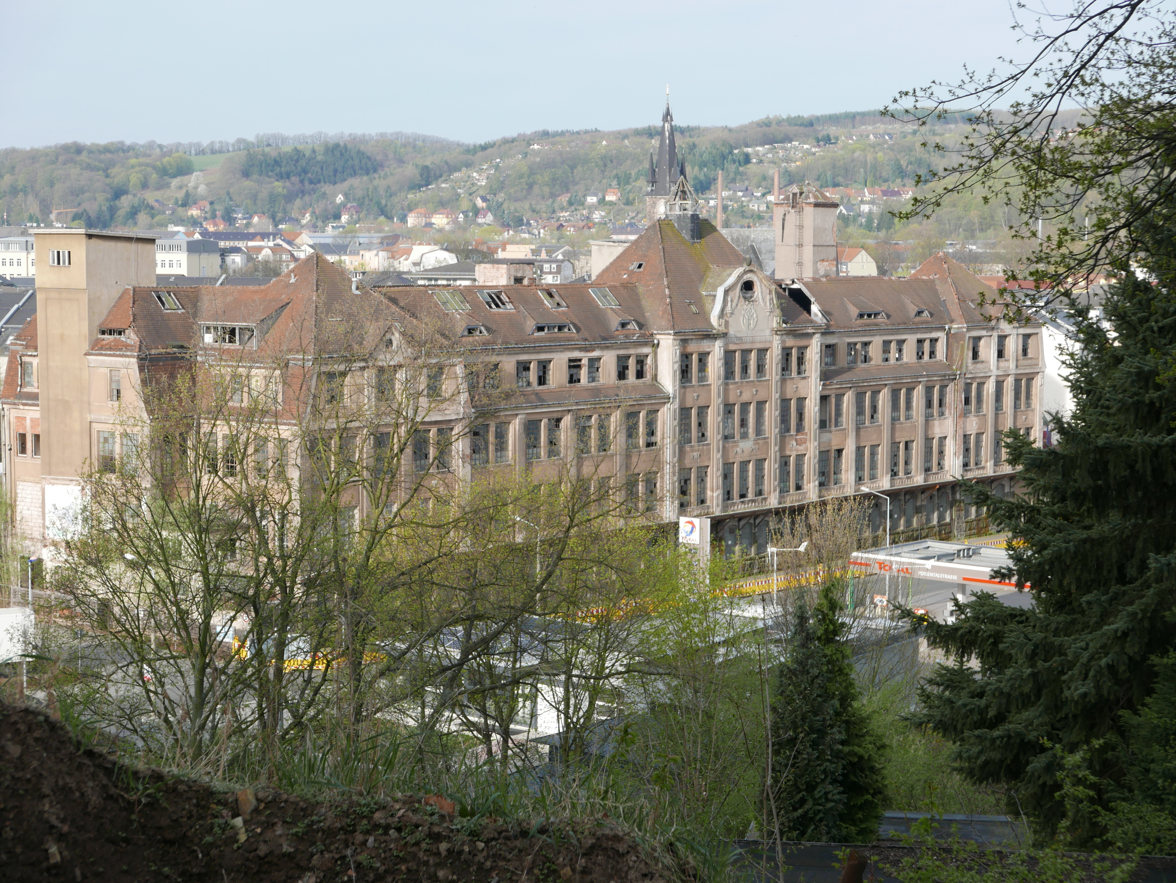 Leather manufactury 1893-1991 in Freital-Deuben